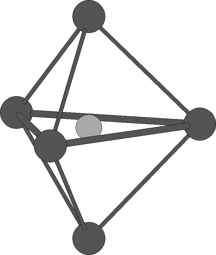 Idealized trigonal bipyramidal coordination polyhedron, where all the bond lengths between the central atom (light gray) and the ligands (dark gray) are equal. Note that in this case the faces are not equilateral triangles. The thick edges correspond to dihedral angles of 53.1°, the thinner ones to dihedral angles of 101.5°.